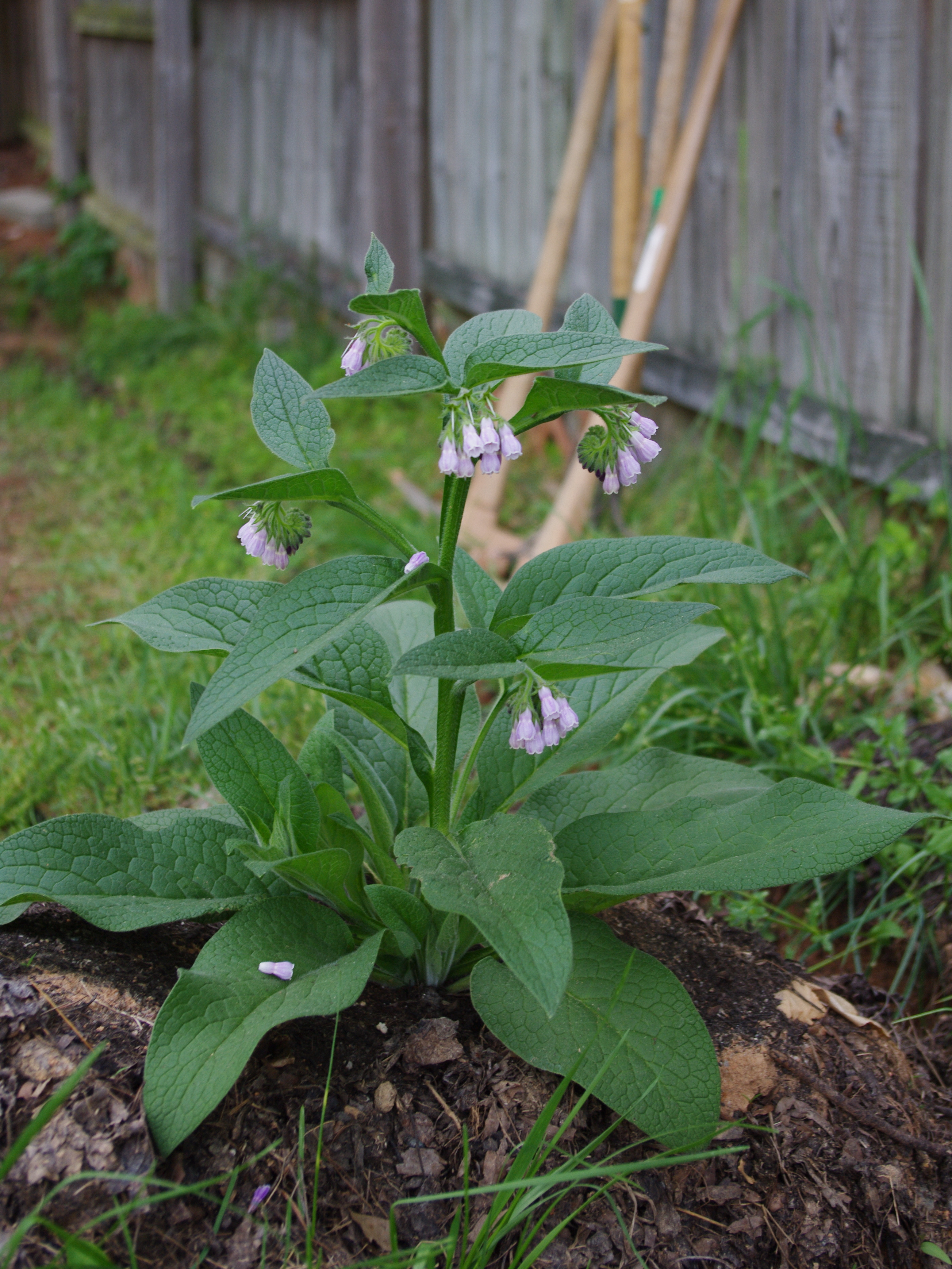 Russian Comfrey, Bocking 14 cultivar. Growth from a root cutting planted February 20, 2011. Photographed April 27, 2011.